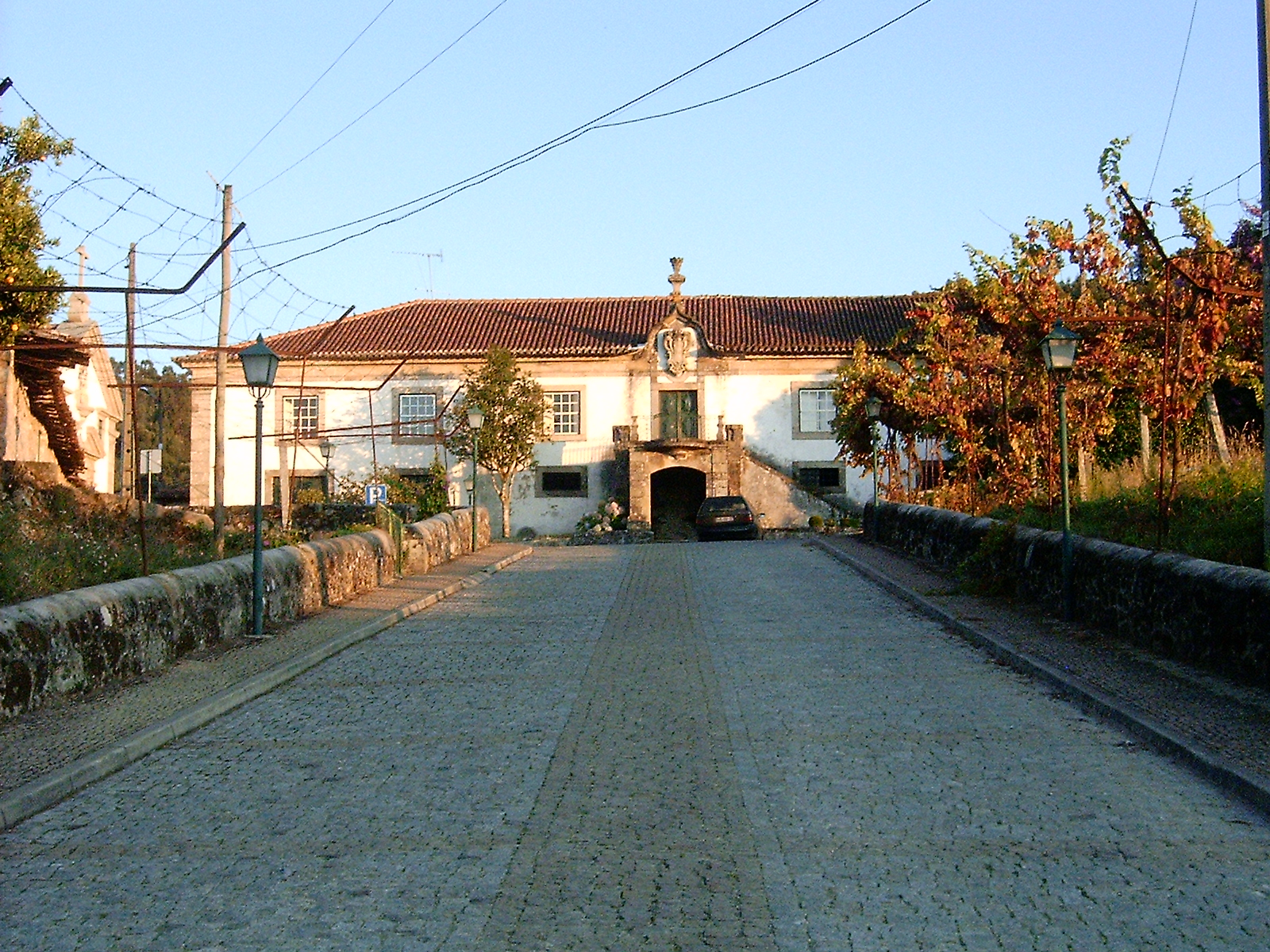 Maner house named "Casa do Assento", Pousada (Braga), Portugal.